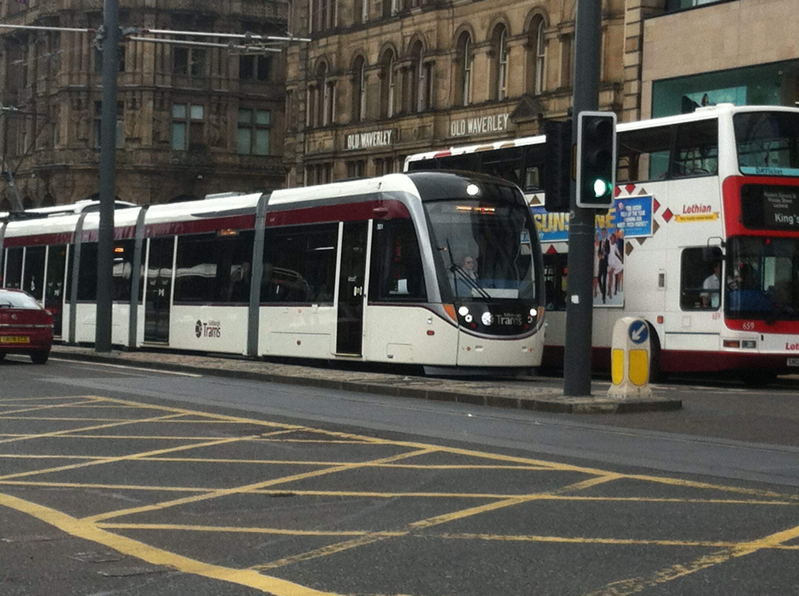 An eastbound Edinburgh tram in Princes Street, passing the Old Waverley Hotel. Behind it is Lothian Buses bus 659 en-route to King's Buildings (the university campus in the south of the city). The bus is still in the old Harlequin livery, which was also going to be the scheme used on the trams.